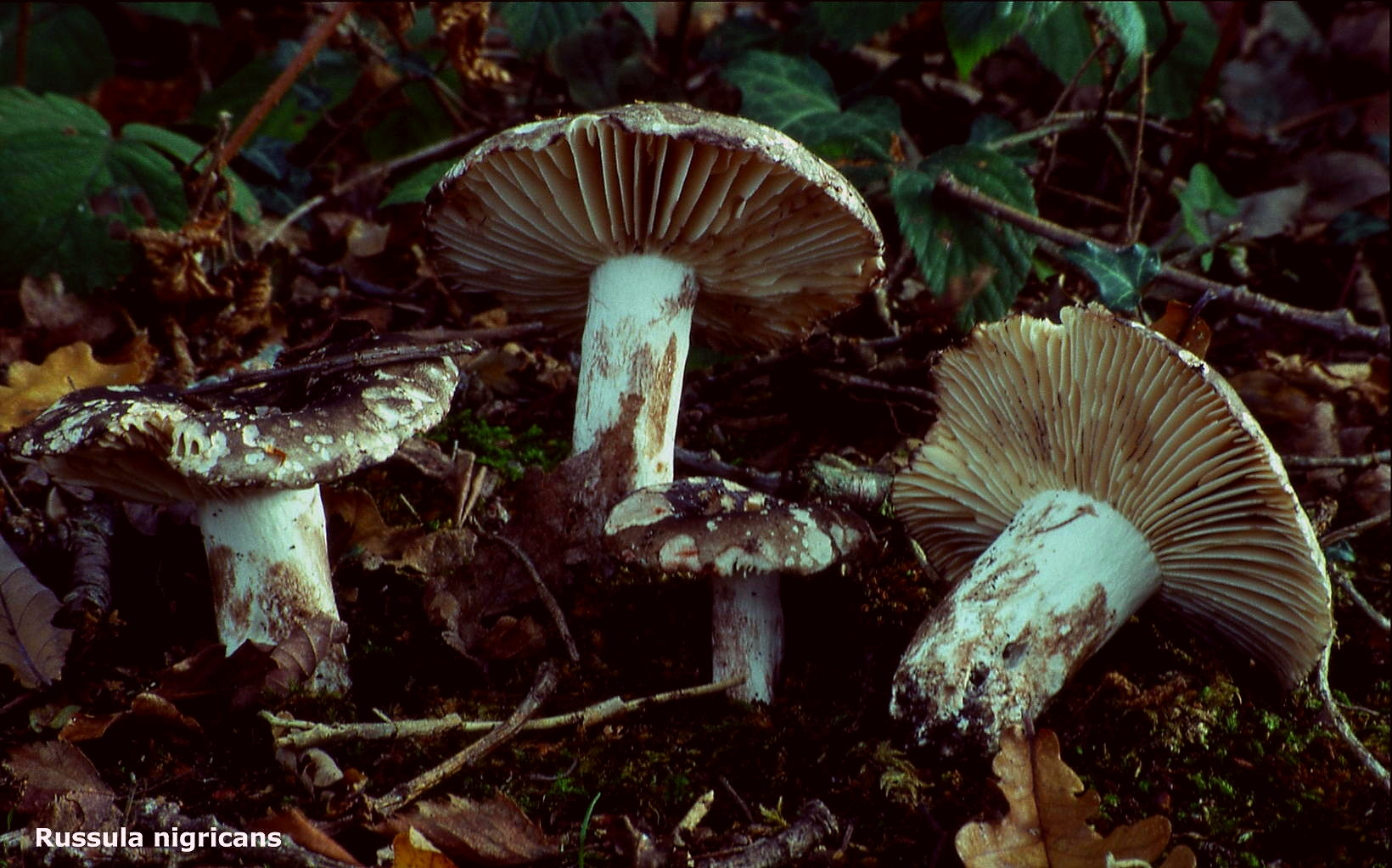 The source of this image is the photographer Frank Gardiner aka Zonda Grattus, who is the sole owner and copyright holder of this photograph and agrees to publish it under the Own Work, Creative Commons Attribution 3.0 License.